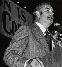 United States Senator George McGovern speaking at a campaign rally at the Miller Outdoor Theatre in Houston, Texas, on October 16, 1972, during the final weeks of the 1972 U.S. presidential campaign. McGovern was the Democratic Party nominee for president. The sign behind him says "Houston is McGovern Country". For confirmation of the time and place of this image, compare with this Associated Press image of the same event.